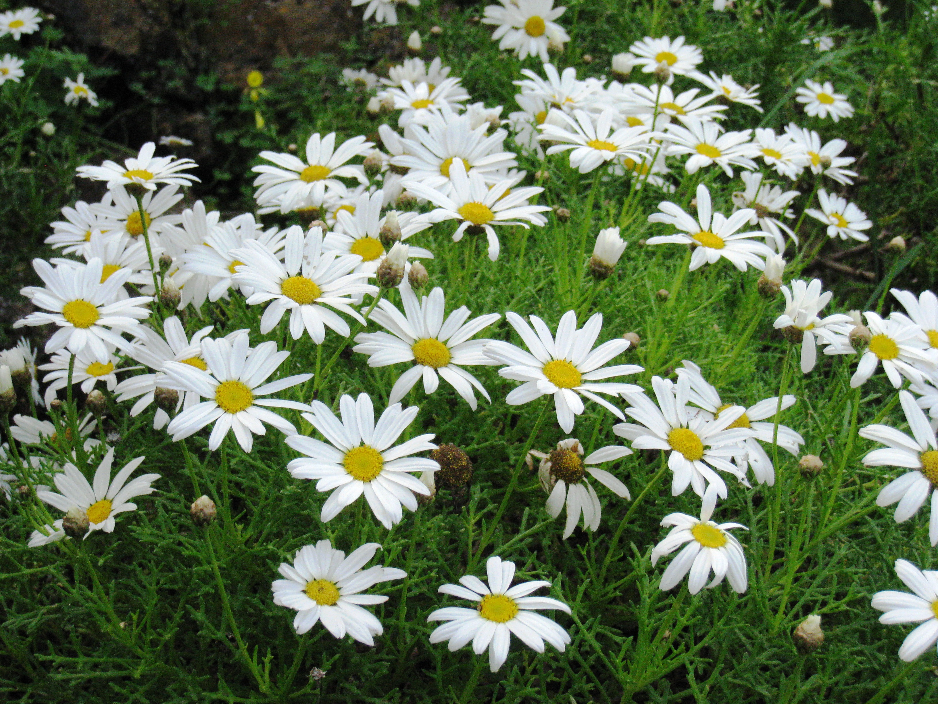 Specimen in cultivation at the Botanical Garden Viera y Clavijo in Gran Canaria Island.